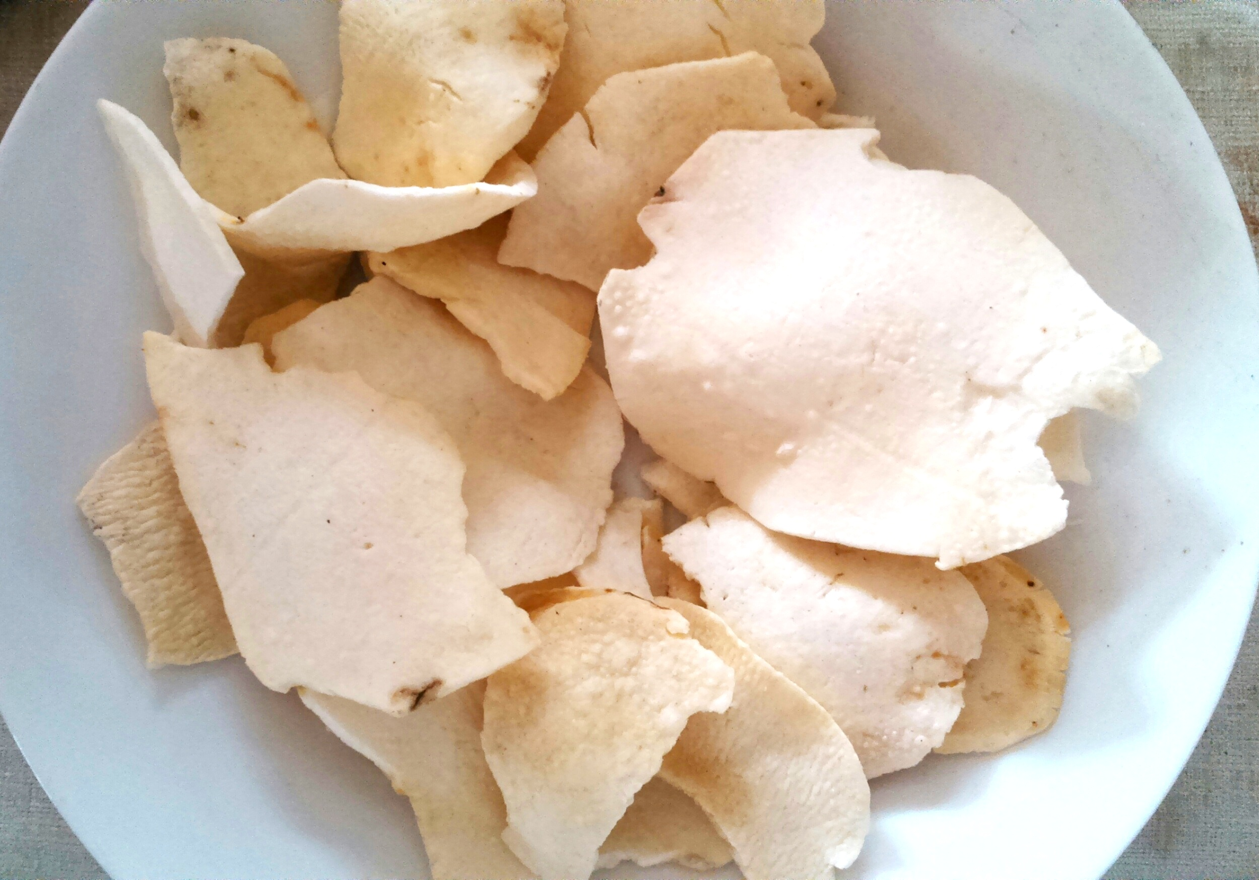 Snack made of Dioscorea hispida tuber, popular around Java and produced by small-scale industry in villages.